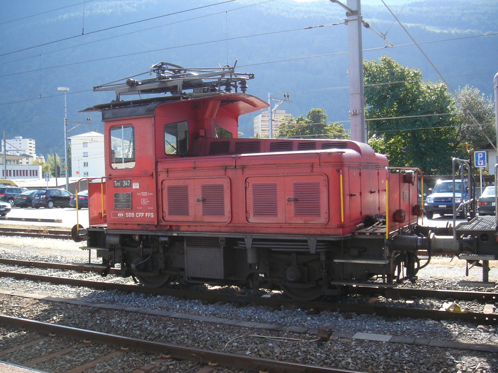 SBB hybrid Tem III 347 at Martigny railway station